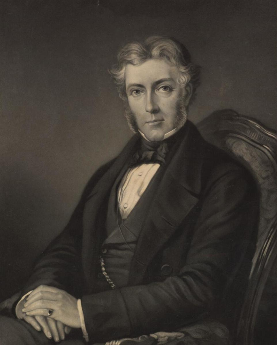 A portrait from the Welsh Portrait Collection at the National Library of Wales. Depicted person: Thomas William Booker-Blakemore – Industrialist and politician